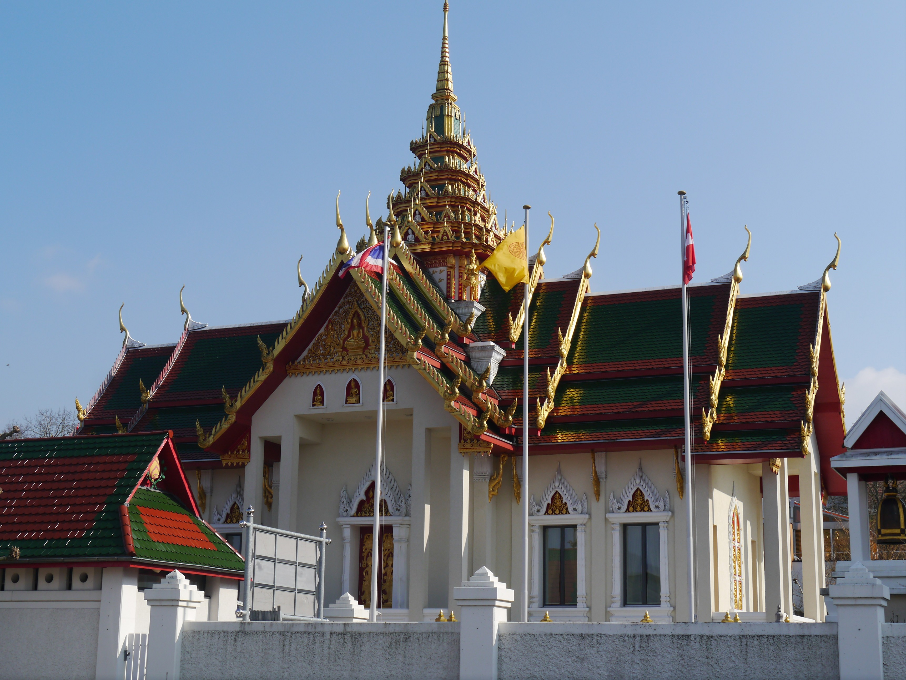 Wat Srinagarindvaram, Gretzenbach